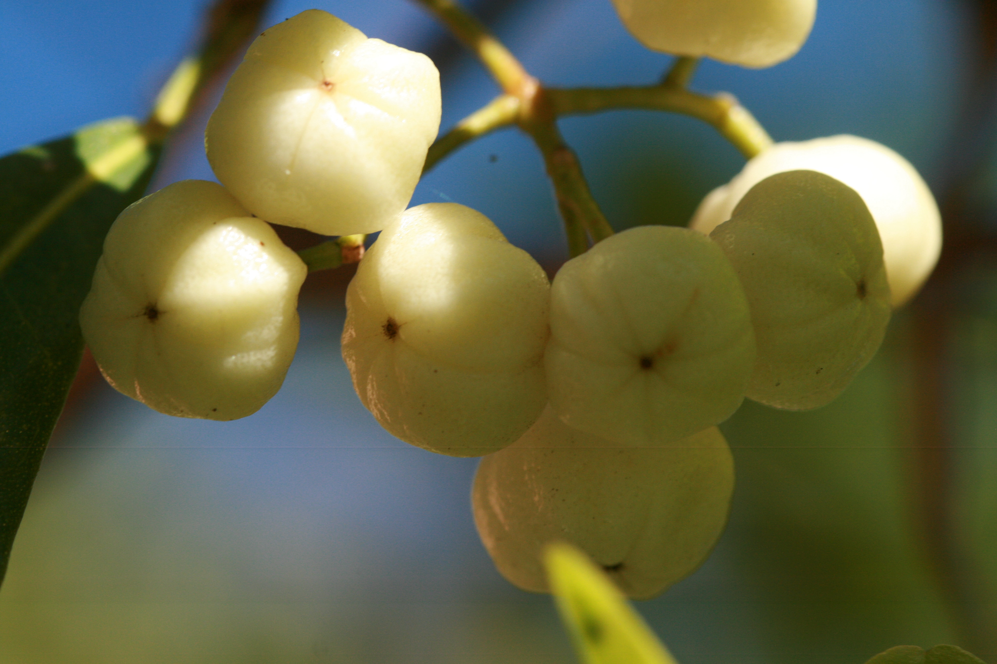 Common Acronychia (Acronychia oblongifolia) cultivated near Toowoomba, Queensland, Australia. Photographed on 10 June 2009.